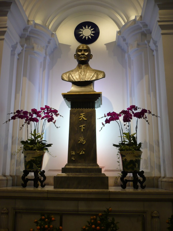 The statue of Dr. Sun Yat-sen and the coat of arms in the office of the president of the Republic of China.中文（台灣）: 中華民國總統府內的孫中山先生塑像與國徽。